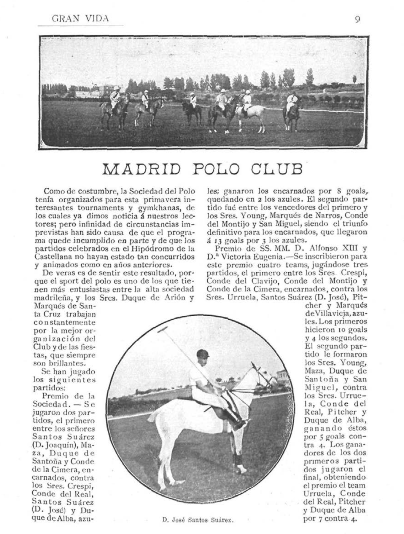 Madrid Polo Club in July 1906. In the photograph, José Santos-Suárez y Jabat.